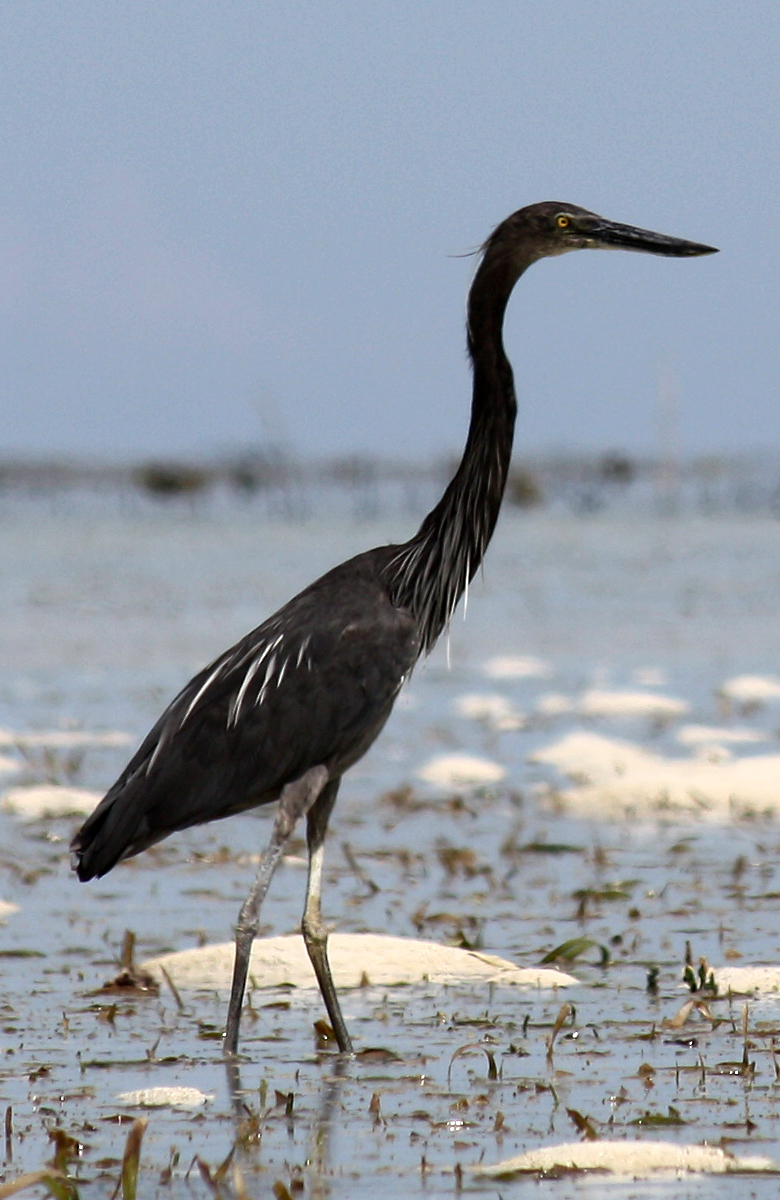 A Great-billed Heron in Palawan, Philippines.